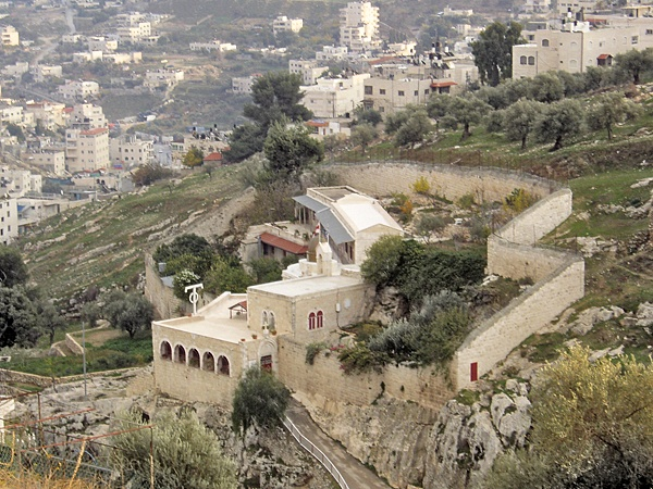 Monastery of St Onuphrius in Hinnom Valley (Bounty24) Aceldama